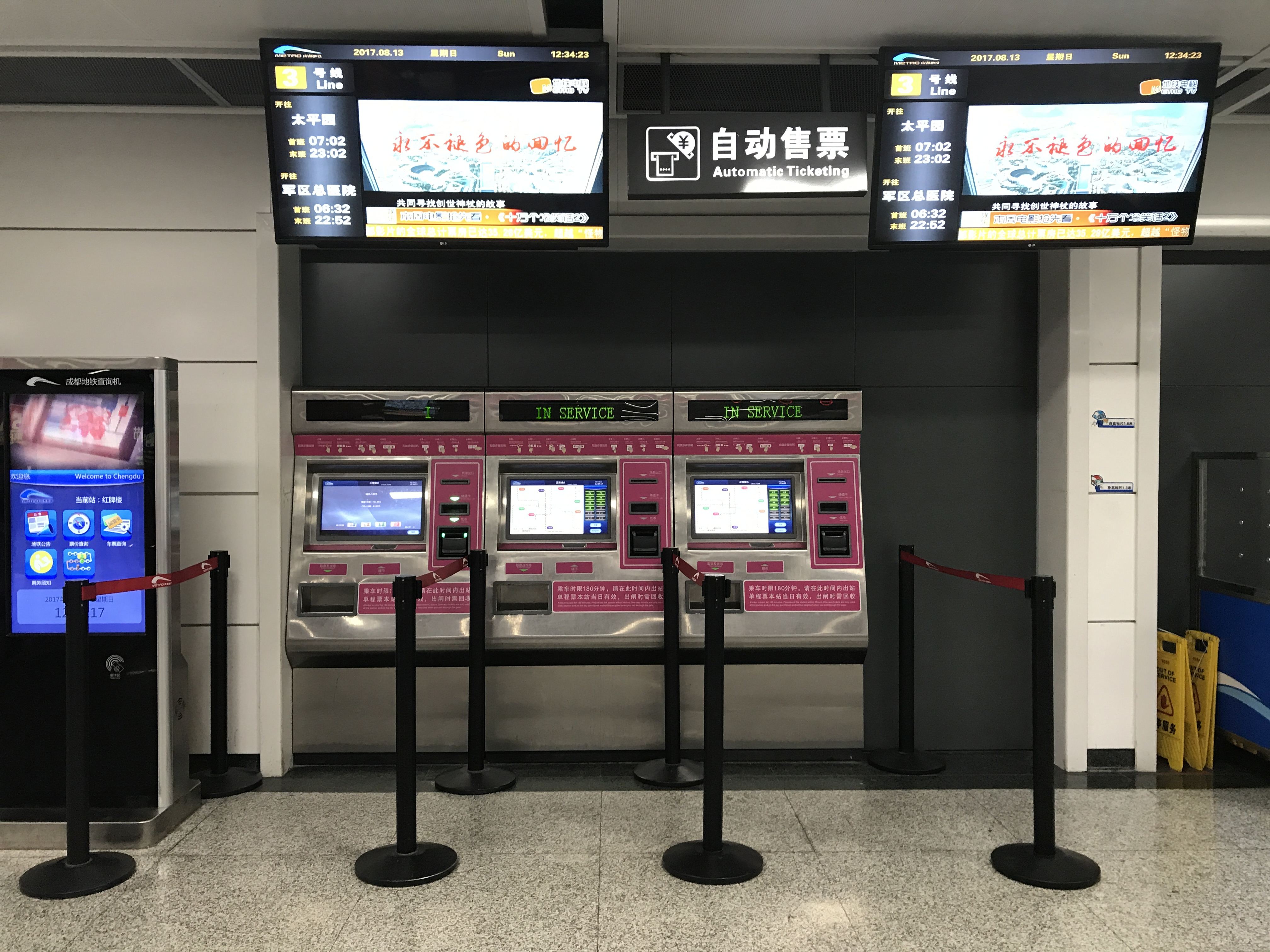 TVM in Hongpailou Station, Chengdu Metro